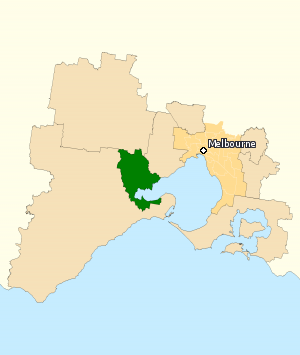 This image incorporates data that is: © Commonwealth of Australia (Australian Electoral Commission) 2009 Division of Corio 2010